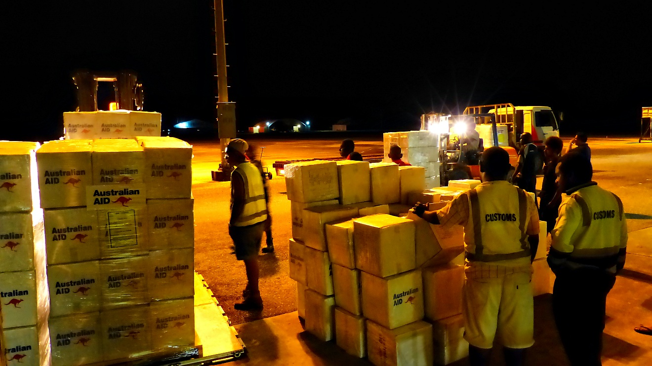 Aid into Solomon Islands from Australia following recent flooding.